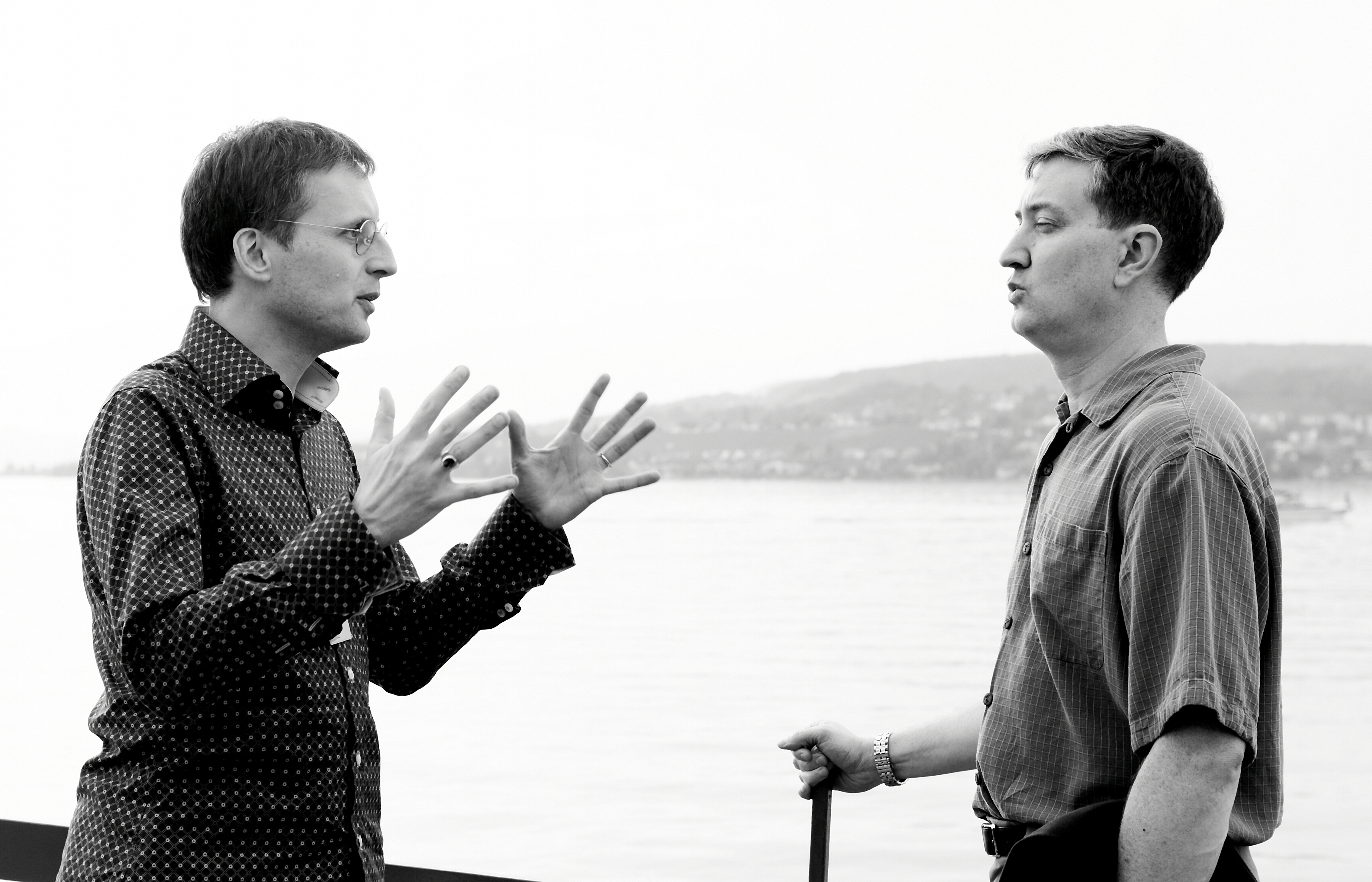 Viktor Mayer-Schönberger and Ed Felten